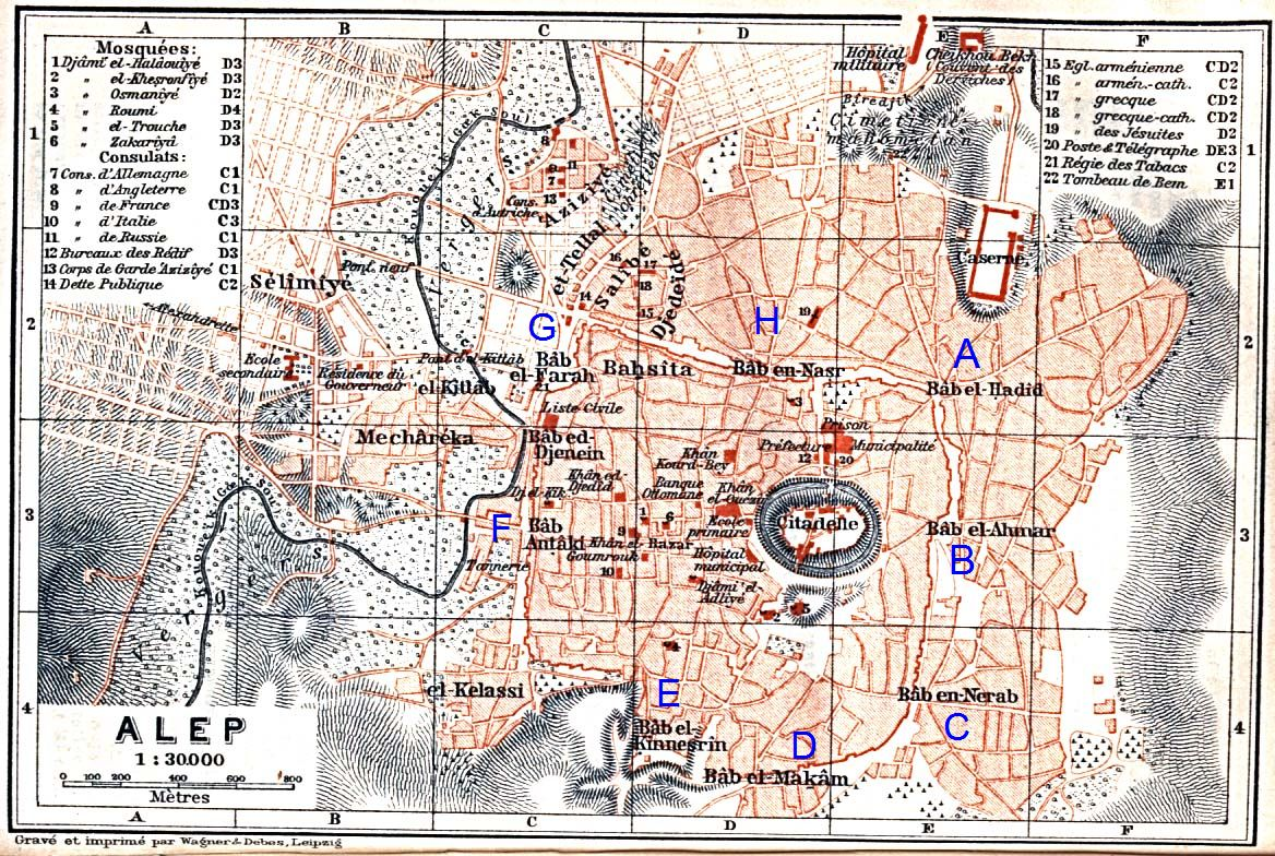 Map of Aleppo, 1912